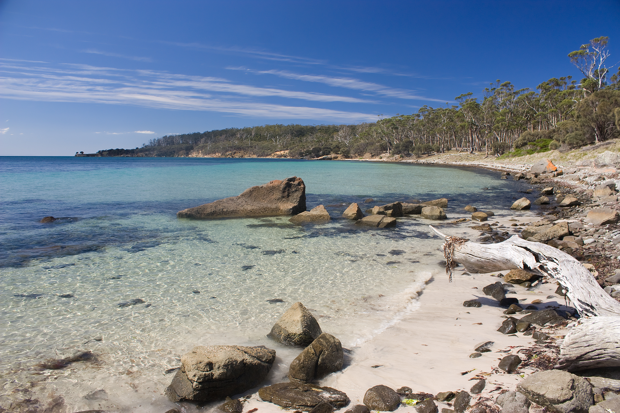 Beach, Maria Island, Tasmania, Australia